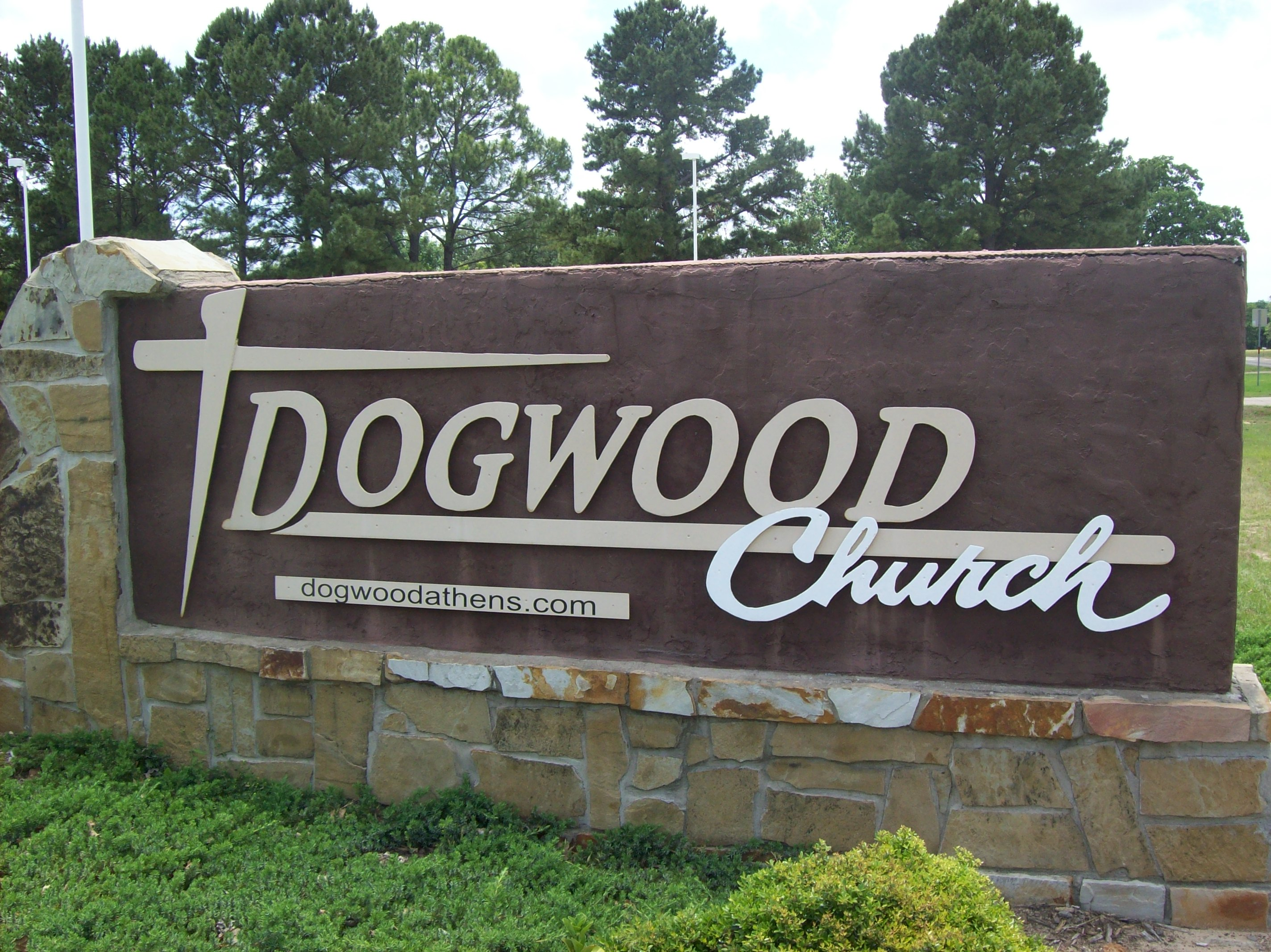 Dogwood Church Athens, TX :: Pastor Dave McGee